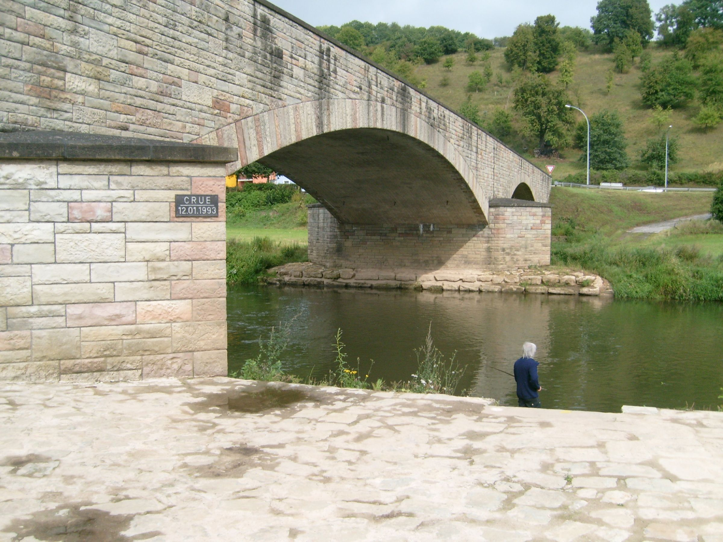 Bridge over the river Sure in the village of Gilsdorf, Luxembourg. View from south-east.